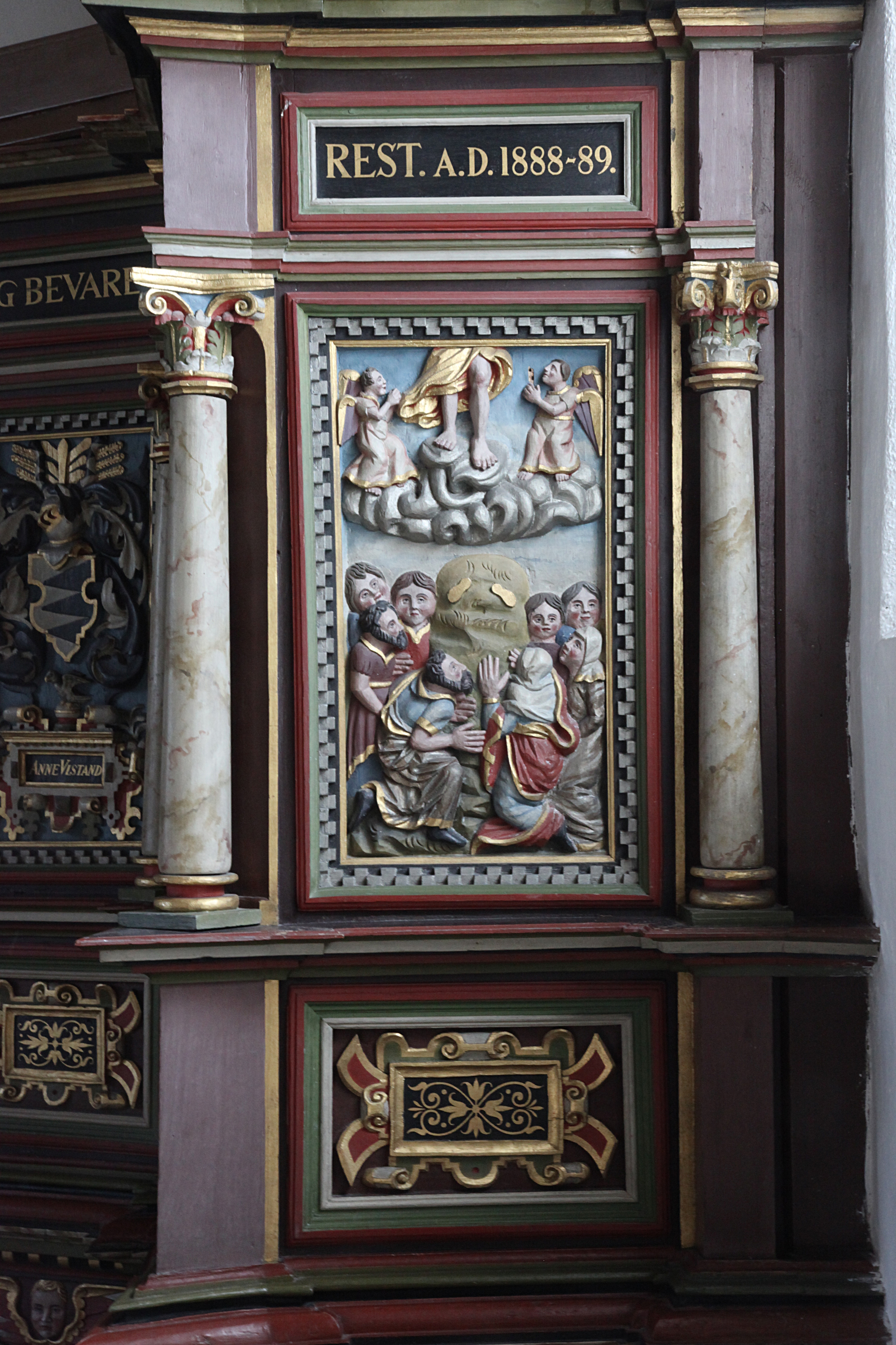 Pulpit in Sulsted Kirke just north of Aalborg, Denmark